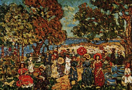 Maurice Brazil Prendergast: Landscape With Figures, 1913